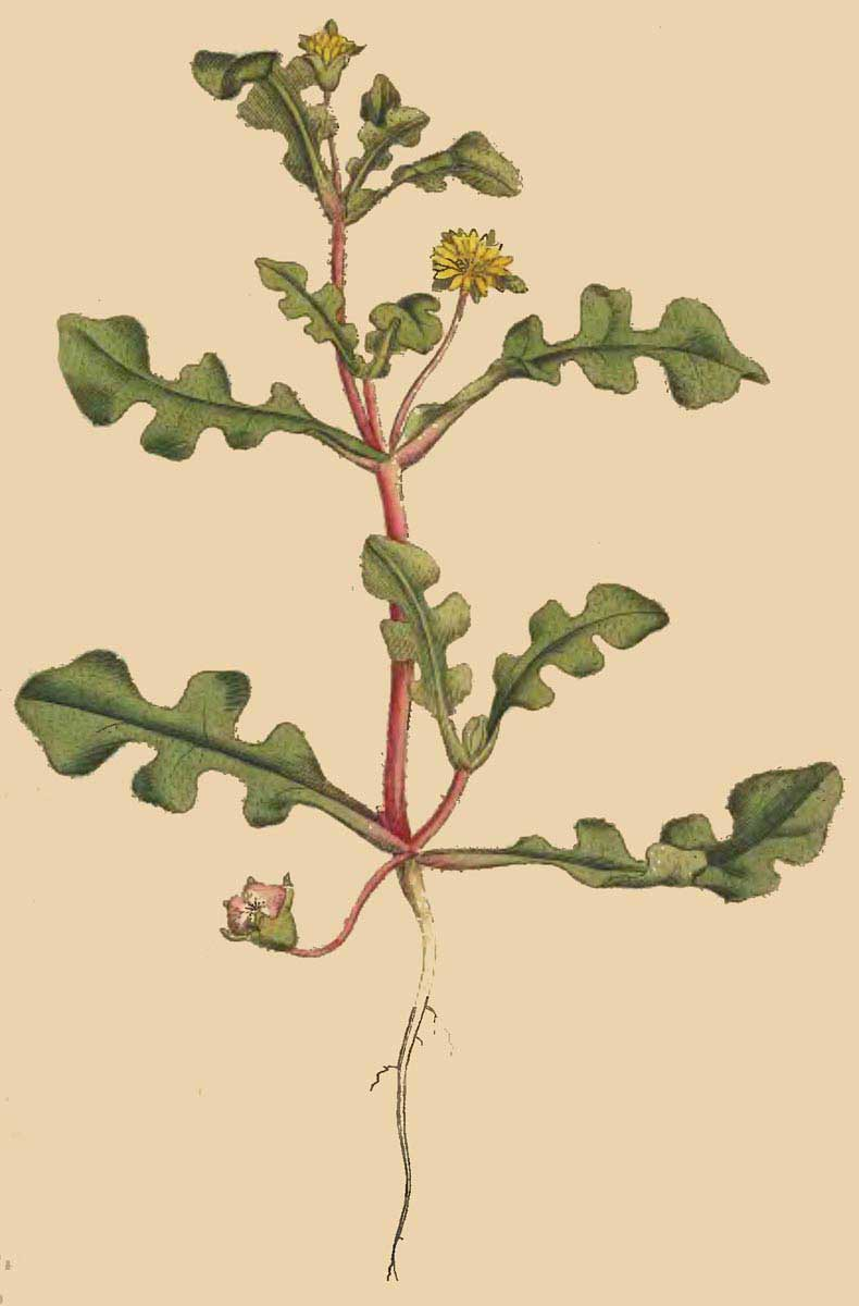 Mesembryanthemum pinnatifidum. Artwork of a species chronicled in the second volume of The Botanical magazine = Aethephyllum pinnatifidum (L.f.) . (